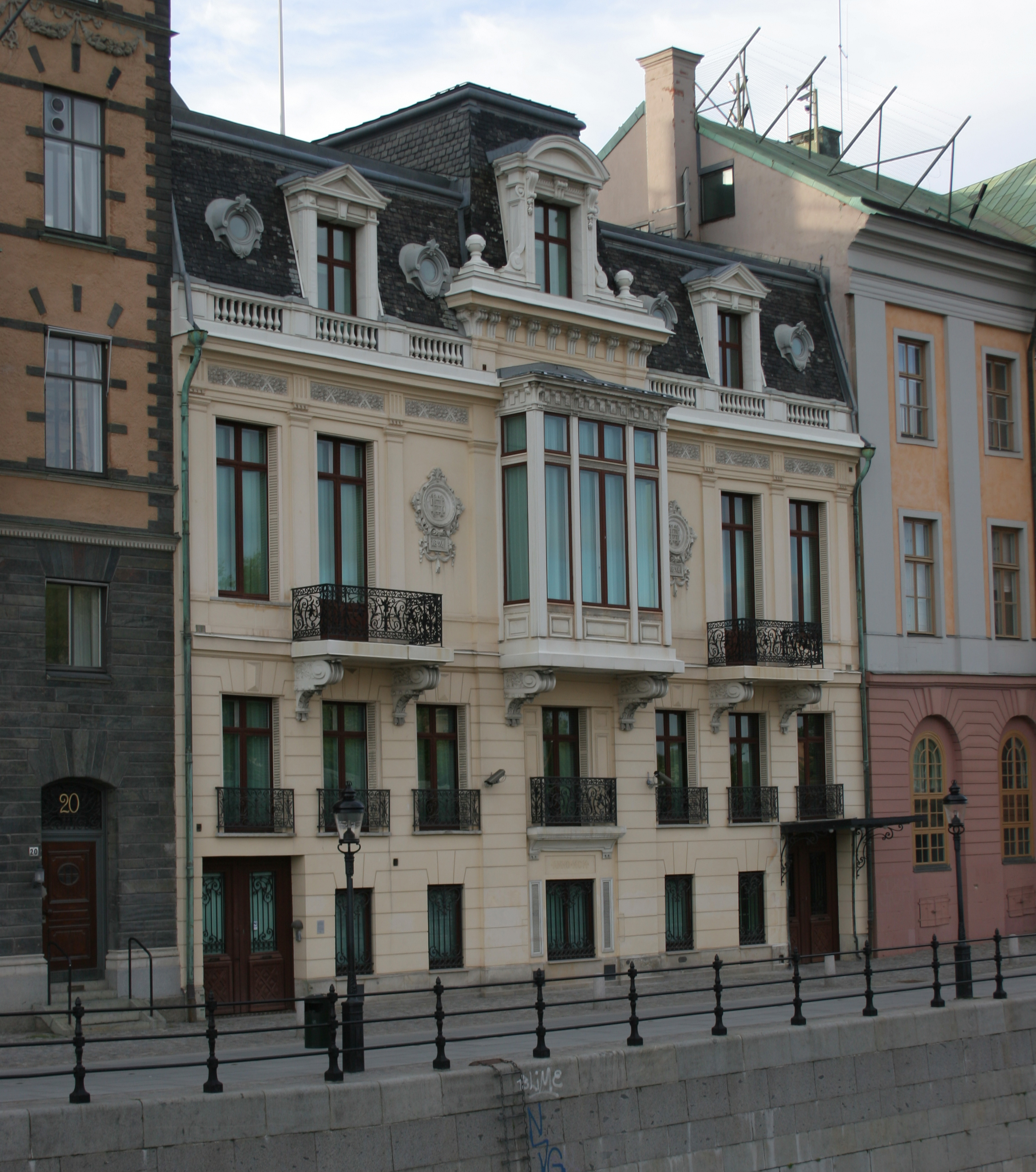 Sagerska palatset, Stockholm, Sweden. The official home of the Swedish prime minister.